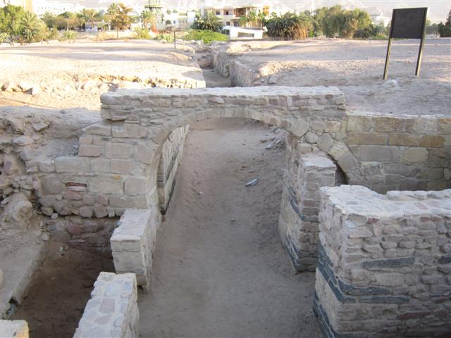 A view of Ayla City in Aqaba, Jordan